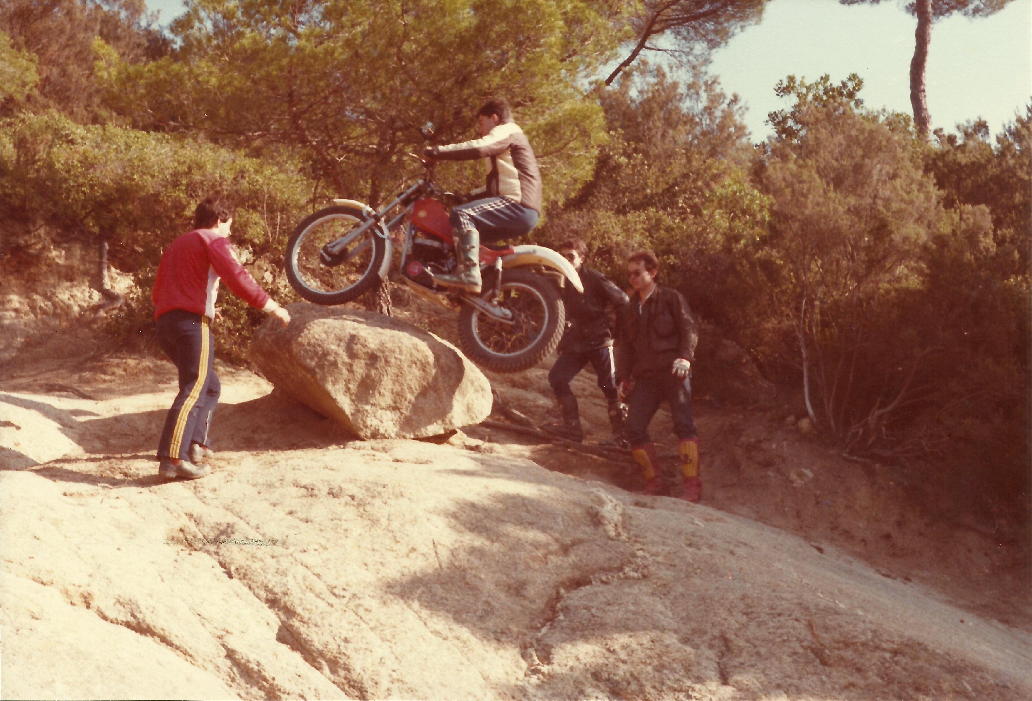 An amateur trials rider on a 1977 Montesa Cota 349 "82", riding in Cabrils (Catalonia) in winter 1984.